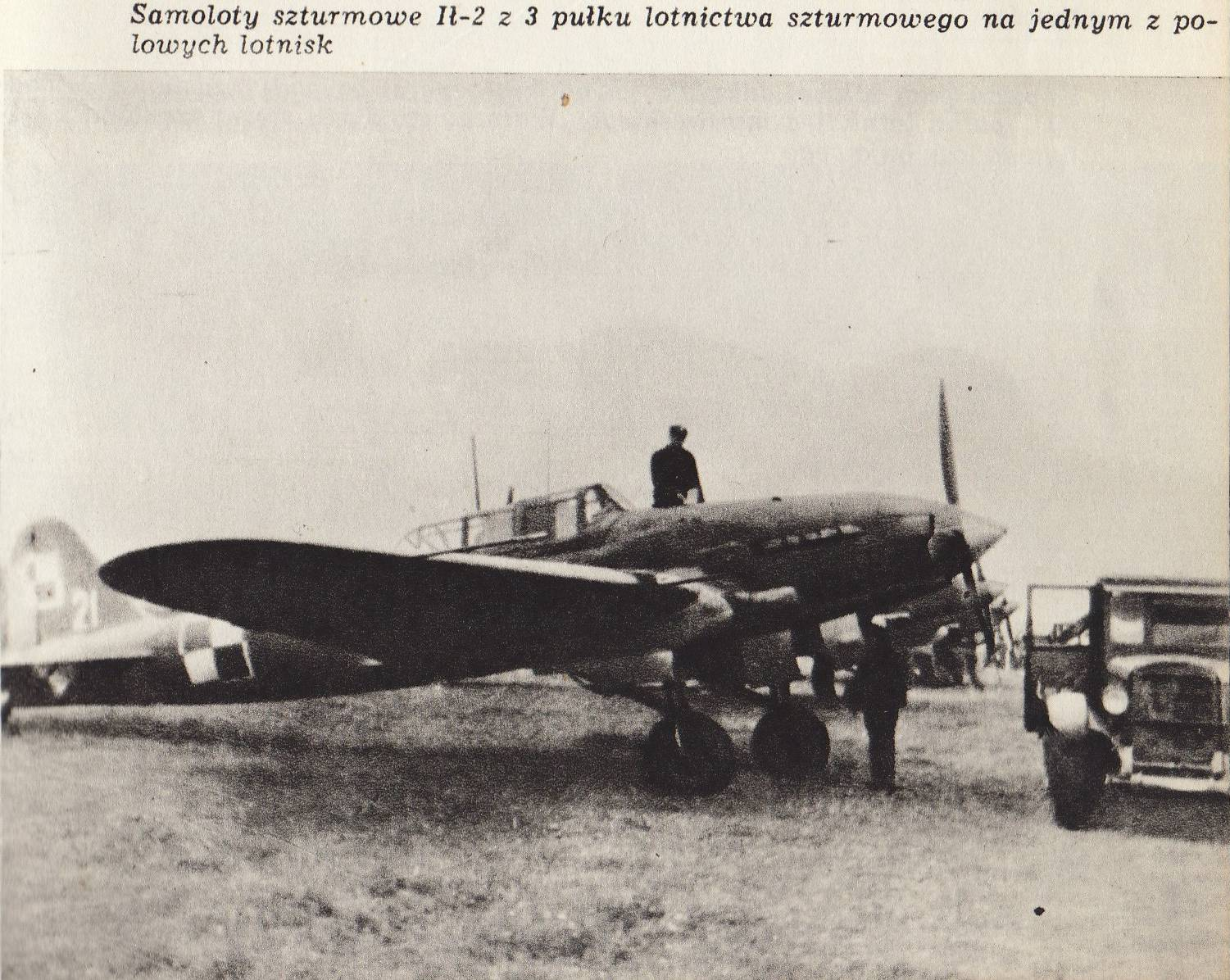 Ilyushin Il-2 of Polish 3 Pułk Lotnictwa Szturmowego (3 Ground-Attack Squadron)